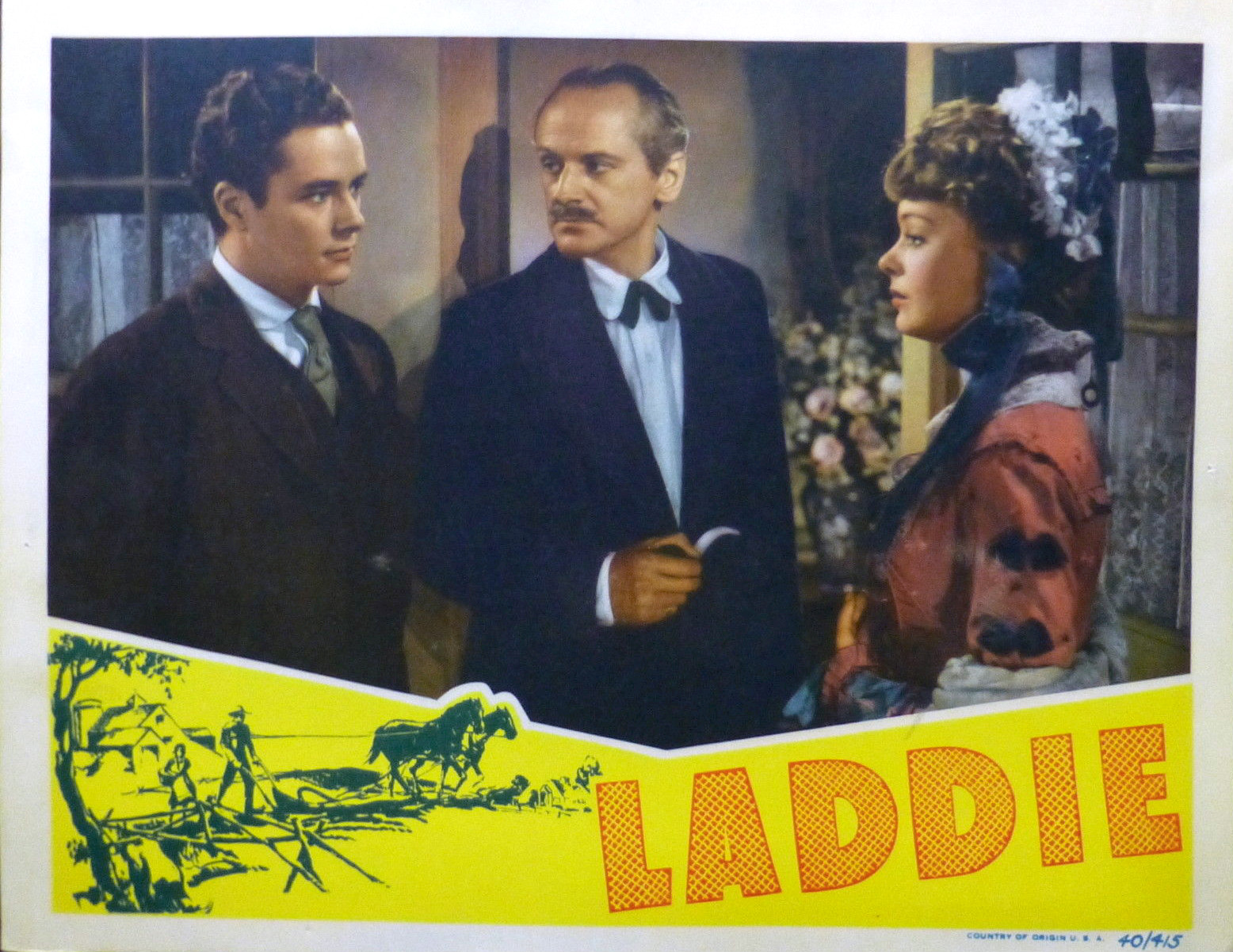 Lobby card for the American drama film Laddie (1940). Laddie (Tim Holt), Mr. Pryor (Miles Mander) and Pamela (Virginia Gilmore). There are no copyright marks on the item, which can be seen at the link. At bottom right is Country of origin USA and 40/415.